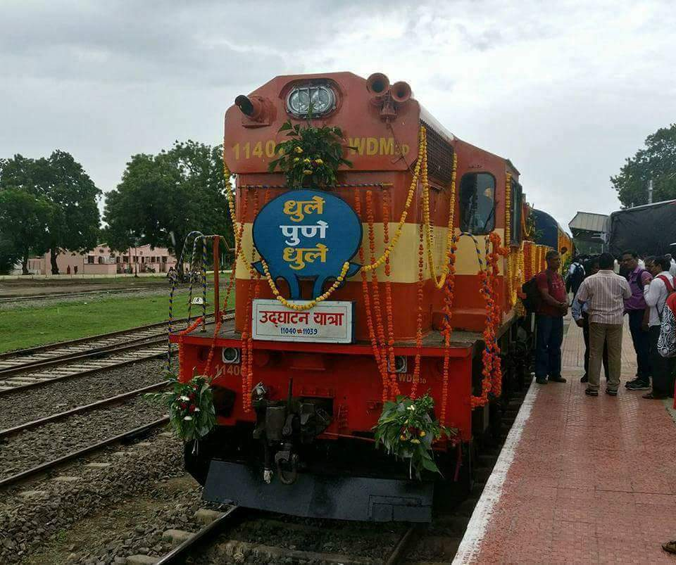 Dhule Pune Dhule Railway